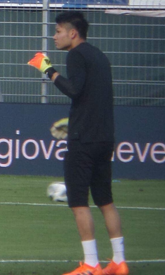 Kōsuke Nakamura at Switzerland vs Japan (June 2018)